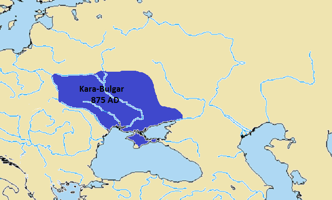 Kara-Bulgar